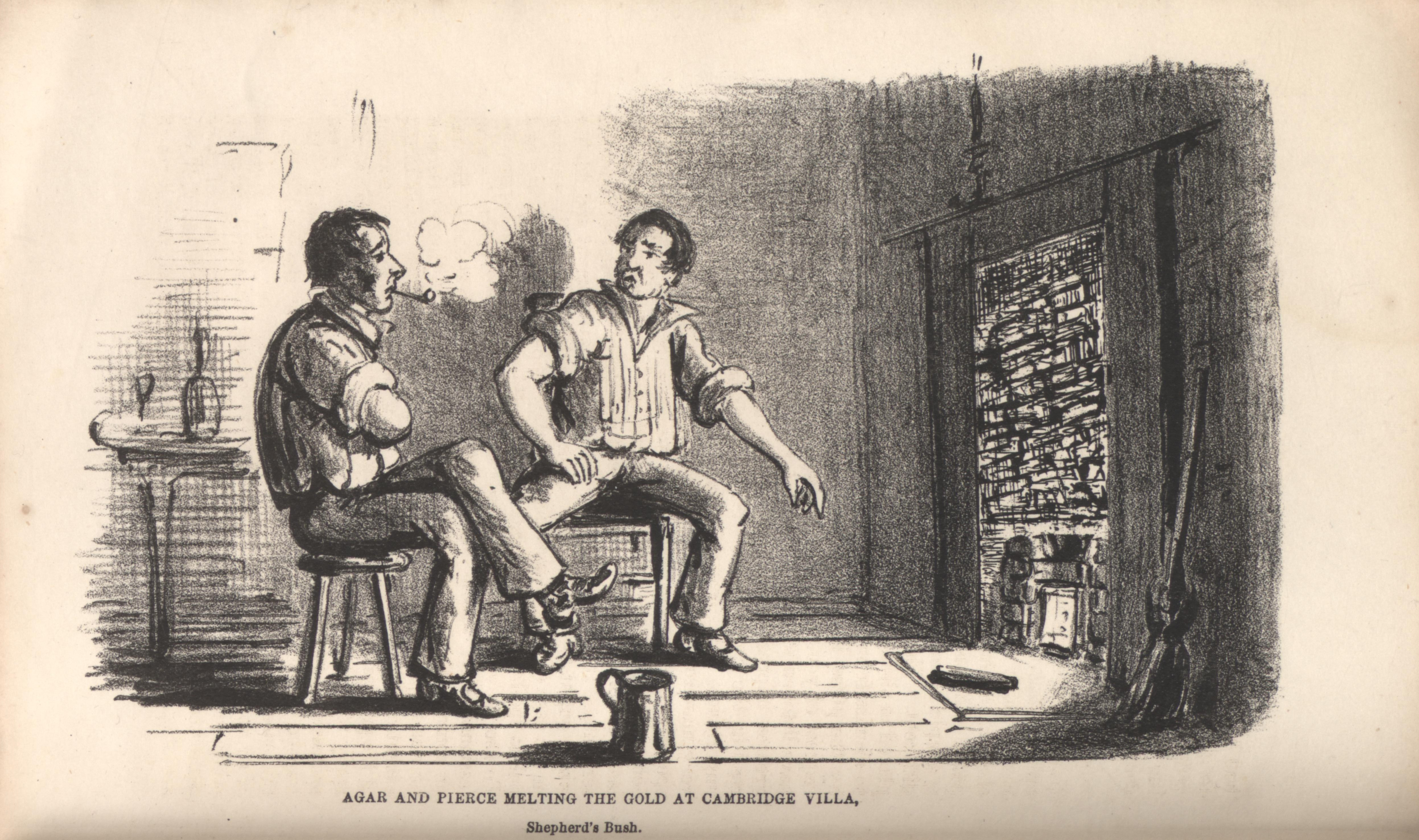 Agar and Pierce melting the gold at Cambridge Villa